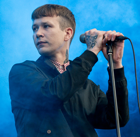 John Olav Nilsen og gjengen at Øyafestivalen 2013